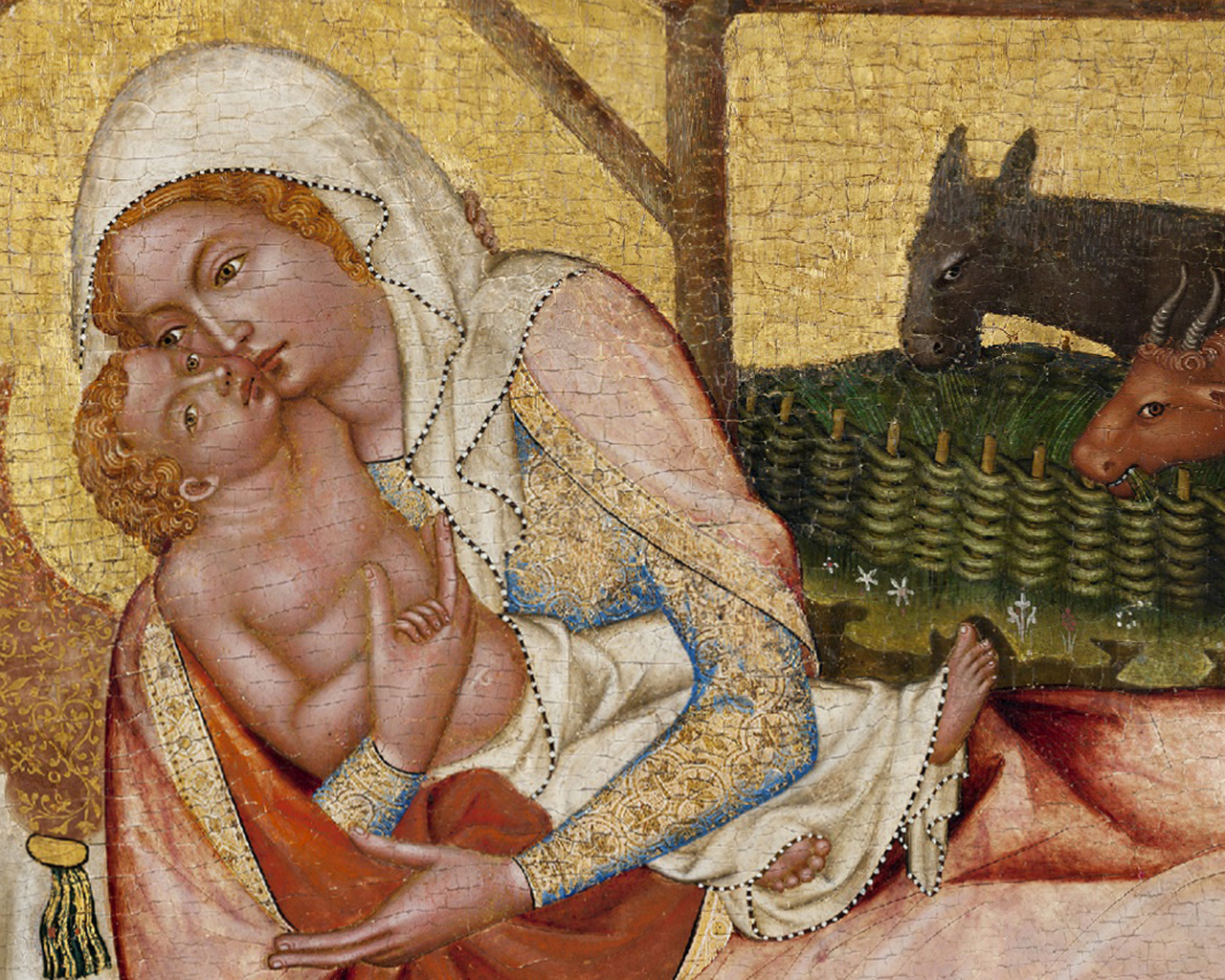 Hohenfurth Altarpiece - Nativity of Jesus (detail), National Gallery in Prague